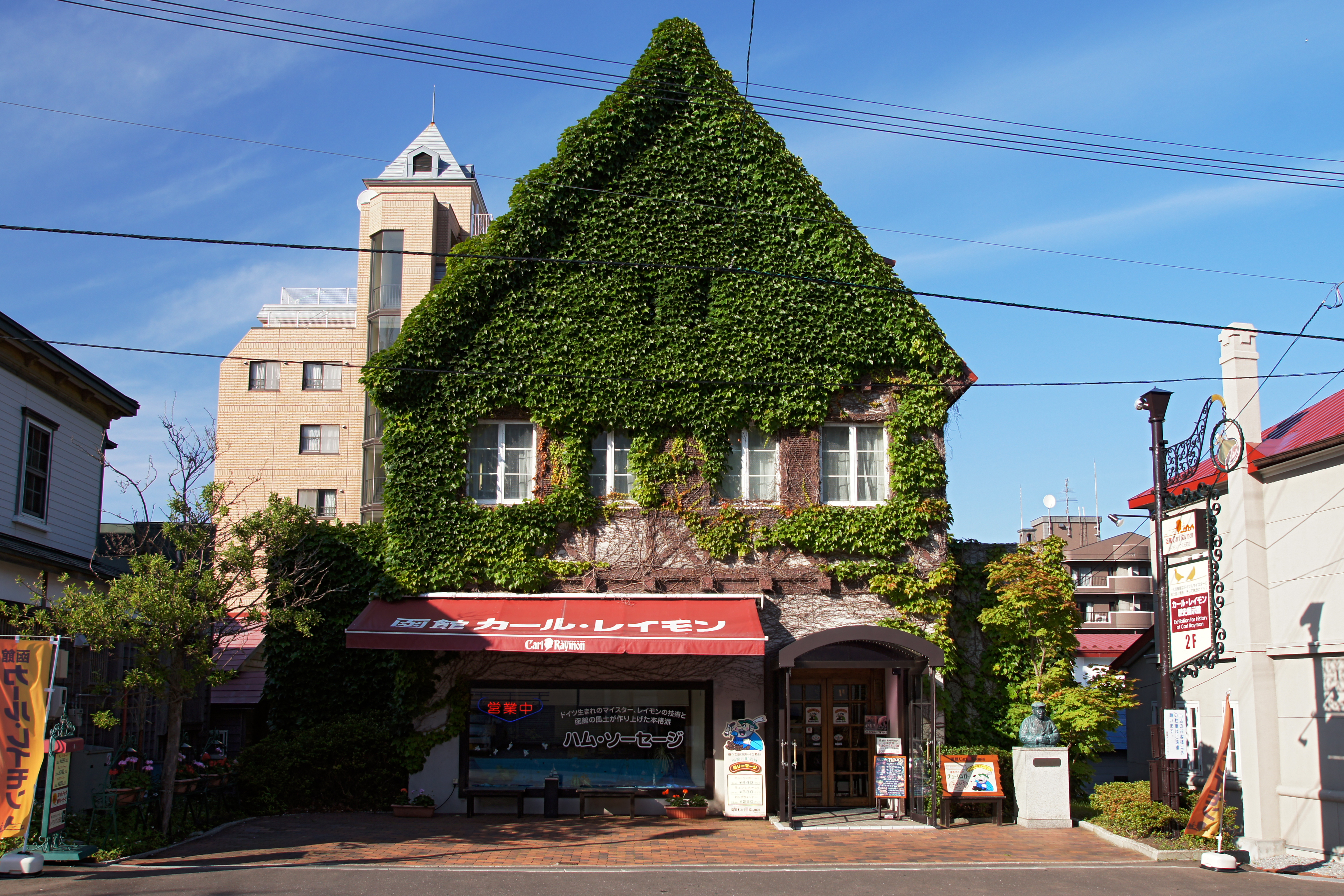 Hakodate Carl Raymon in Hakodate, Hokkaido prefecture, Japan